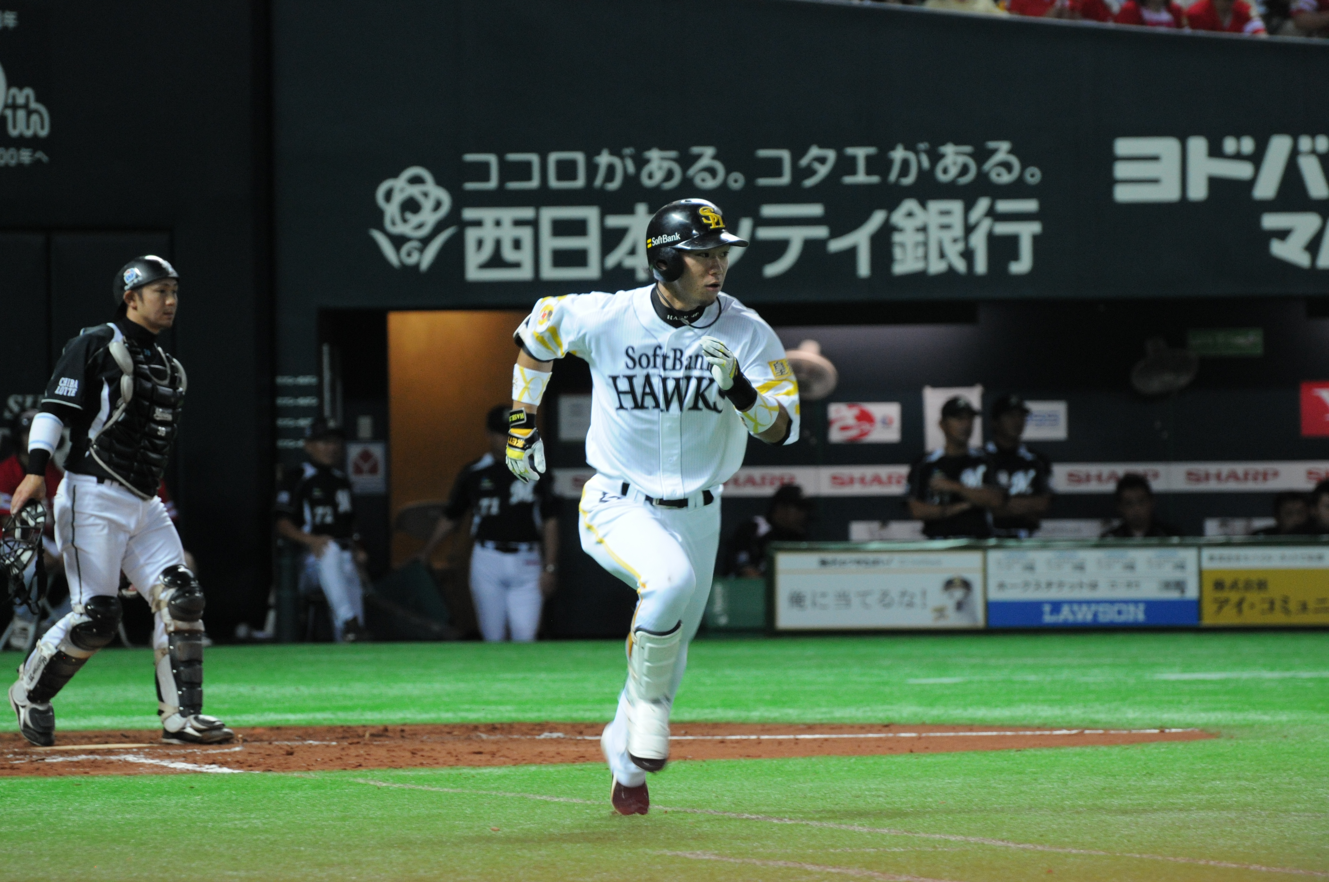 Yuya Hasegawa, outfielder of the Fukuoka SoftBank Hawks, at Fukuoka Dome.